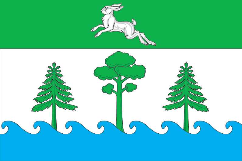 Konakovo (Tver oblast), city flag